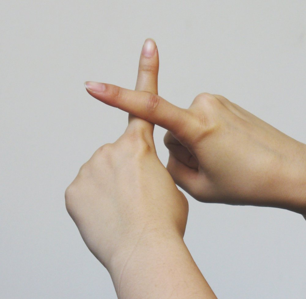 Chinese number 10 shown with two hands